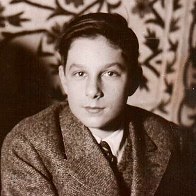 Algirdas Savickis (1917–1943)